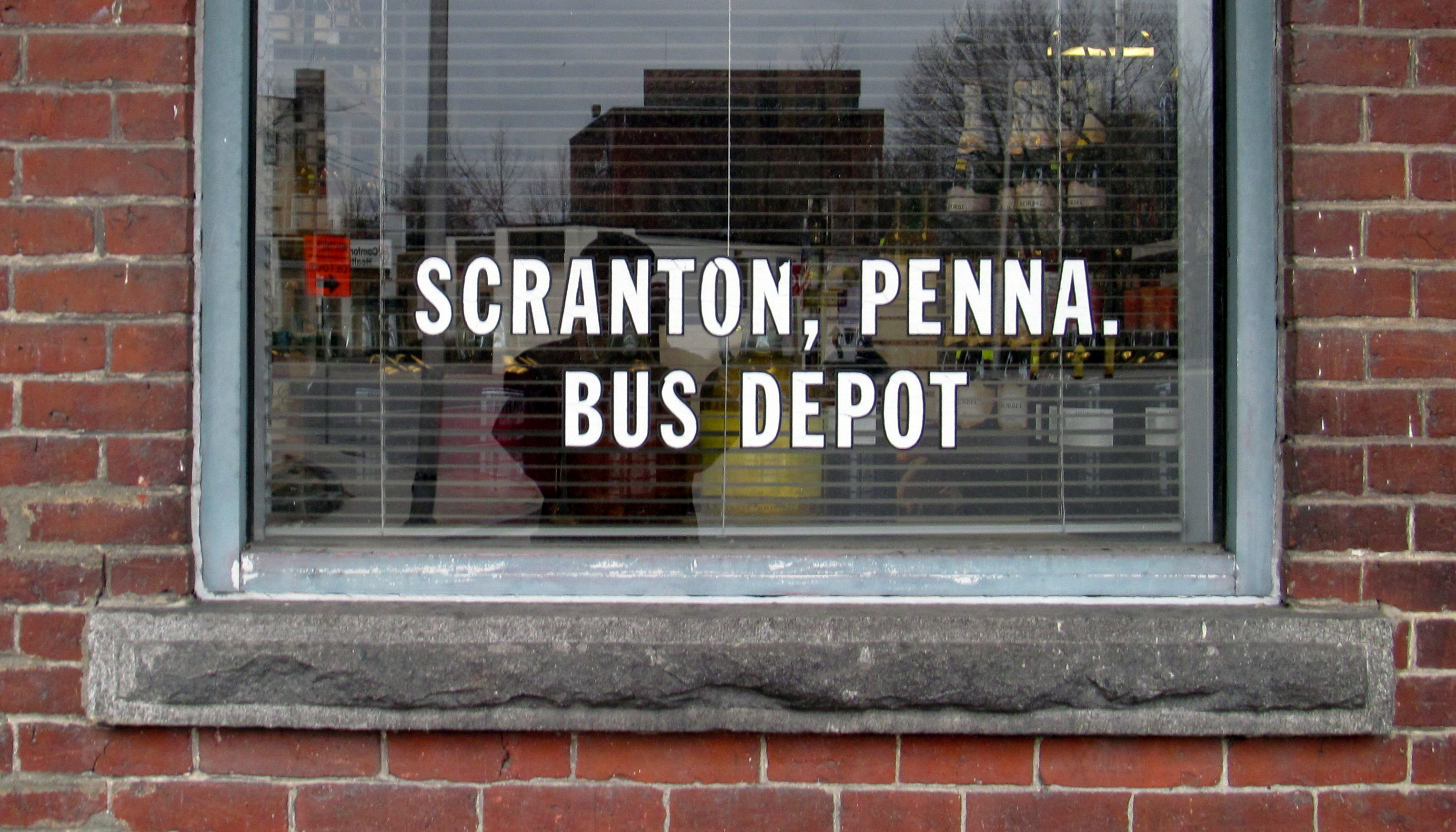 Decal reading "SCRANTON, PENNA. BUS DEPOT" on a window of the former Leominster station in December 2014. The building was used as a set for the 1992 movie School Ties.